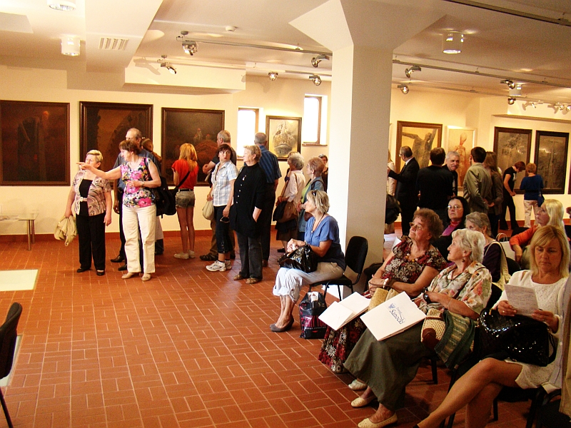 sanok